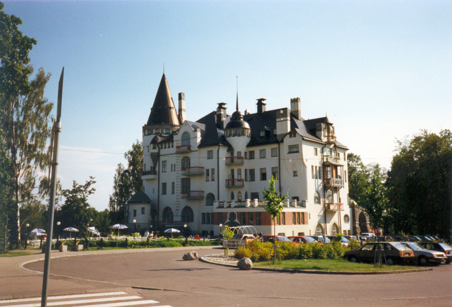 Hotel Imatran Valtionhotelli of Rantasipi in Imatra, Finland